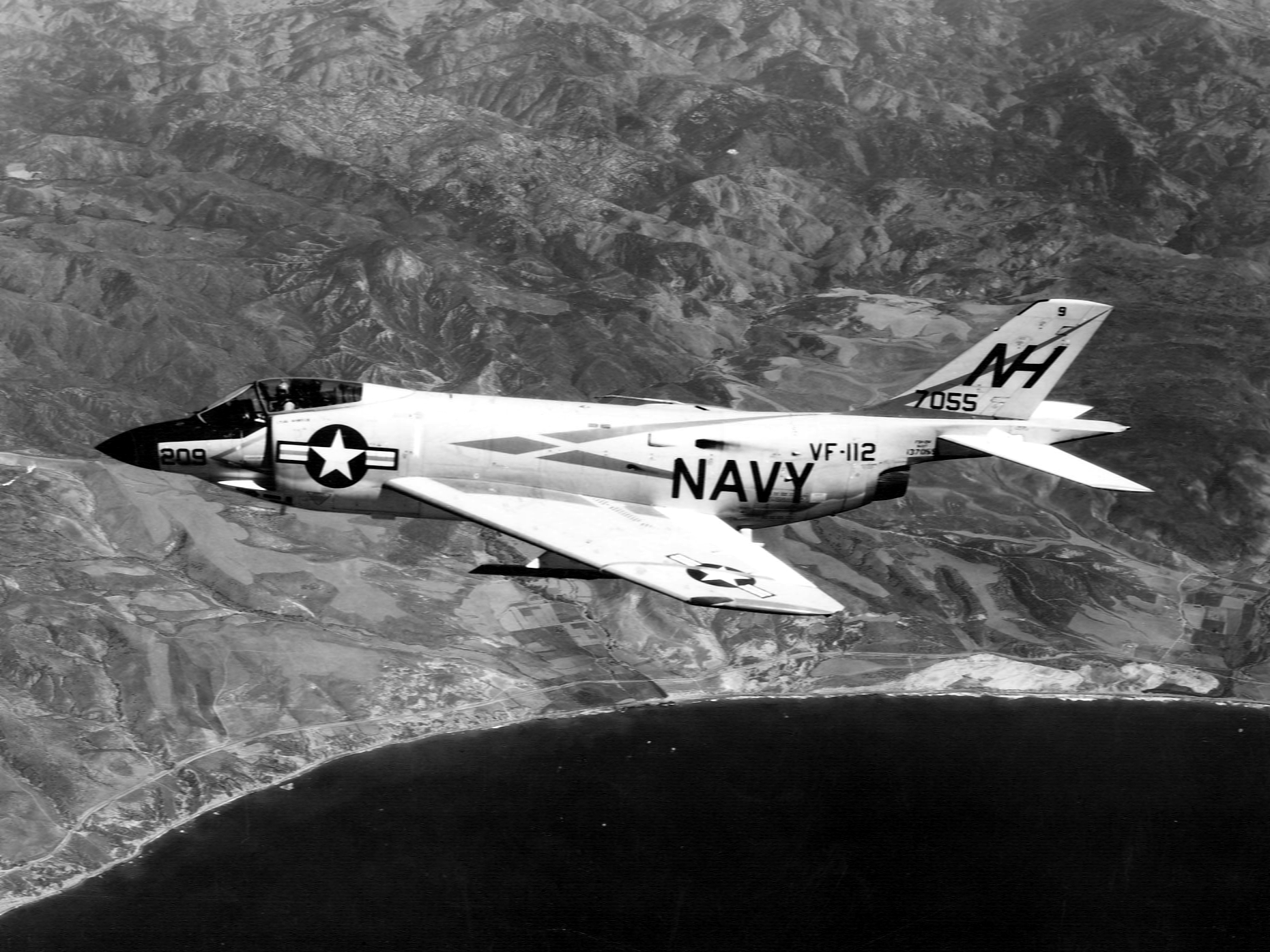 A U.S. Navy McDonnell F3H-2M Demon (BuNo 137055) of Fighter Squadron VF-112 in flight.